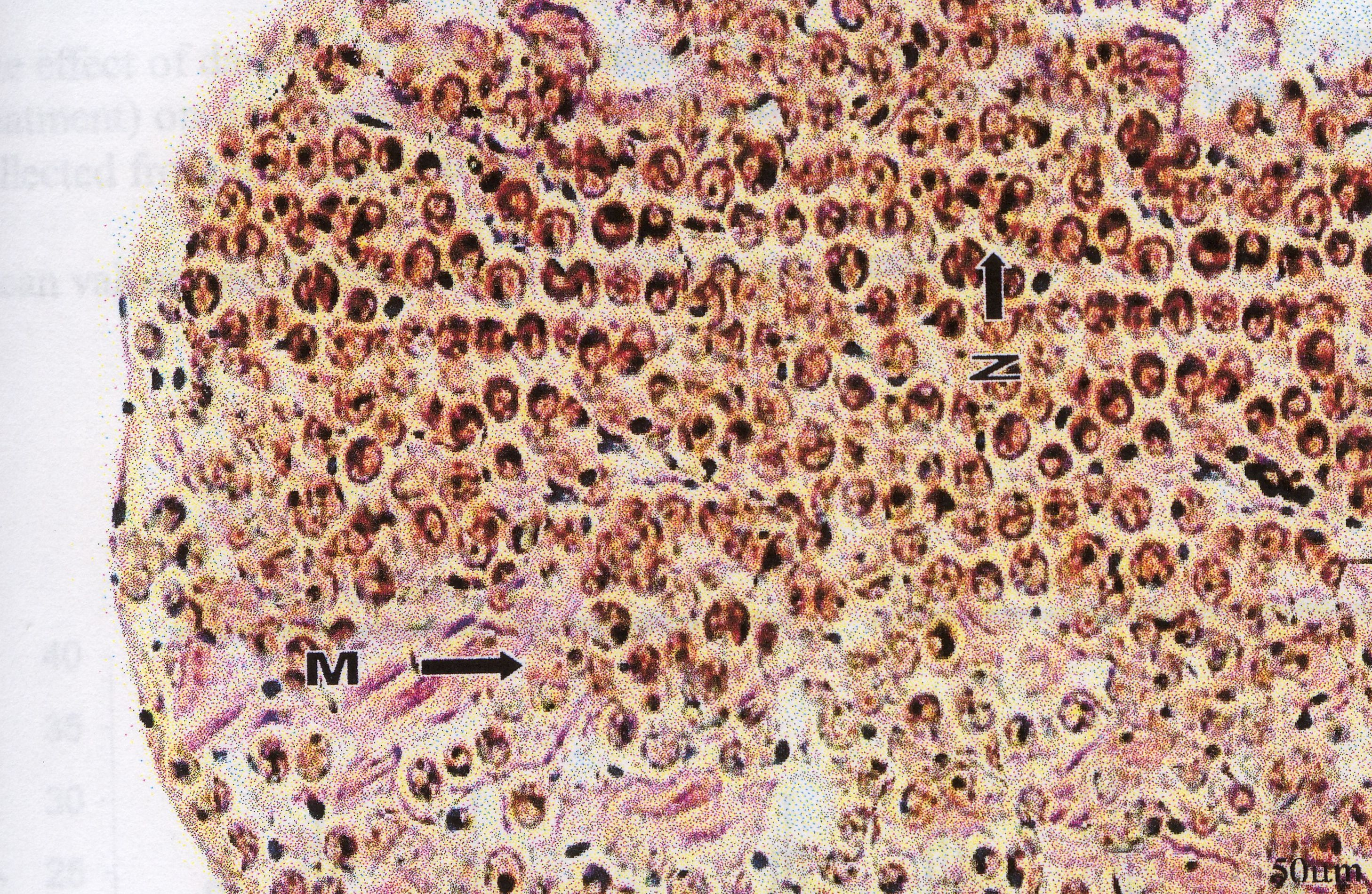 Cross-section of mantle tissue showing dense zooxanthellae